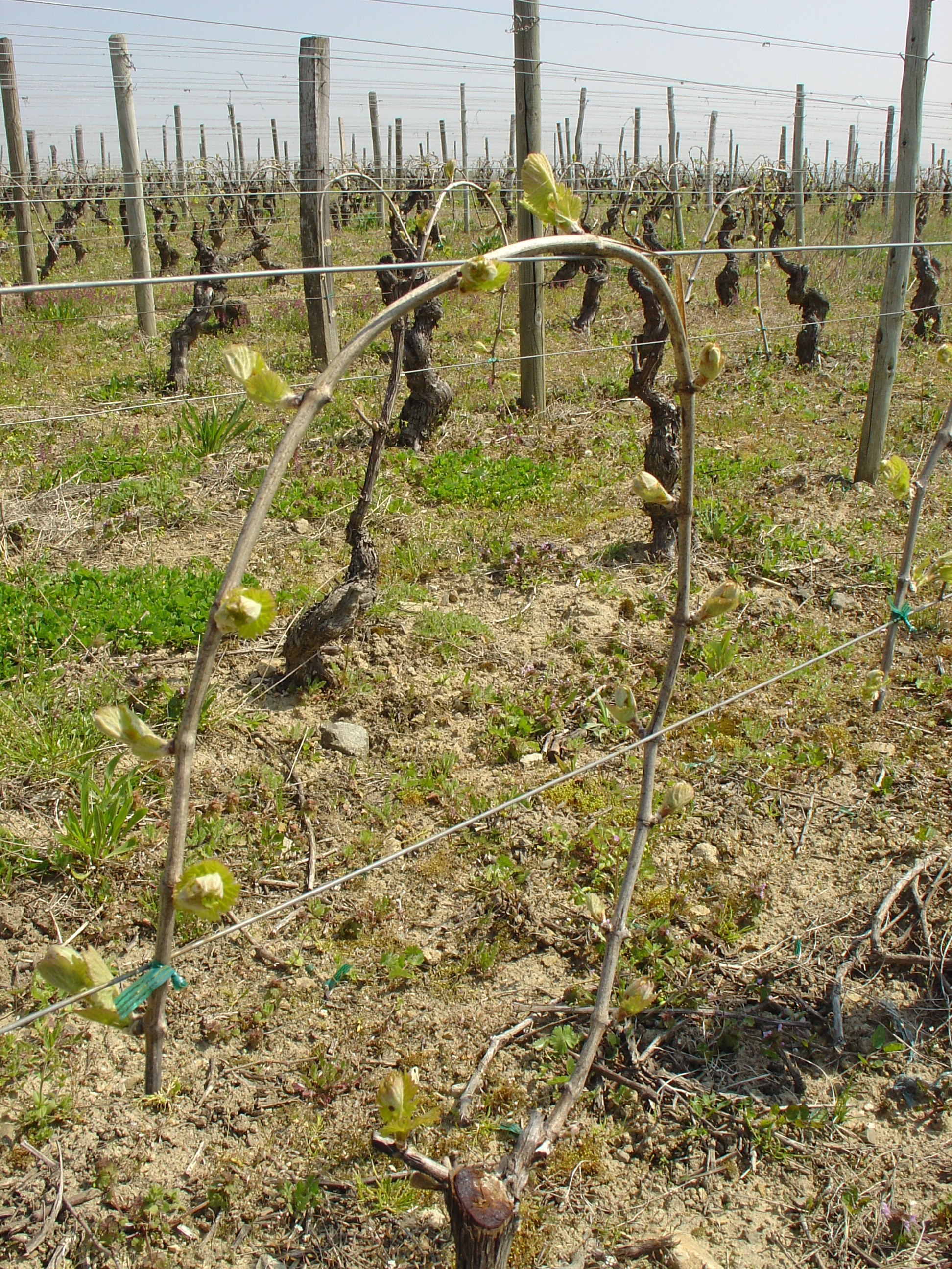 Pruning way from the Mâcon's region, France. Base on Guyot's pruning. Used to prevent freezing and top grown